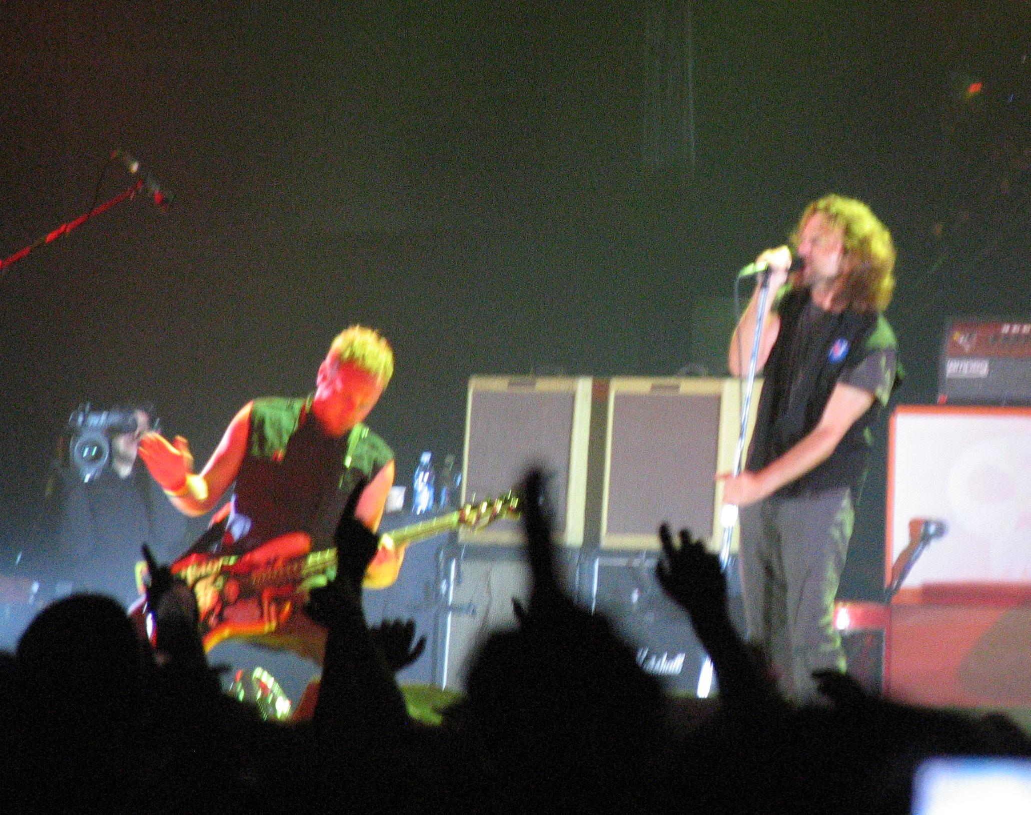 Picture of Jeff Ament and Eddie Vedder of Pearl Jam in concert, taken on September 14, 2006.